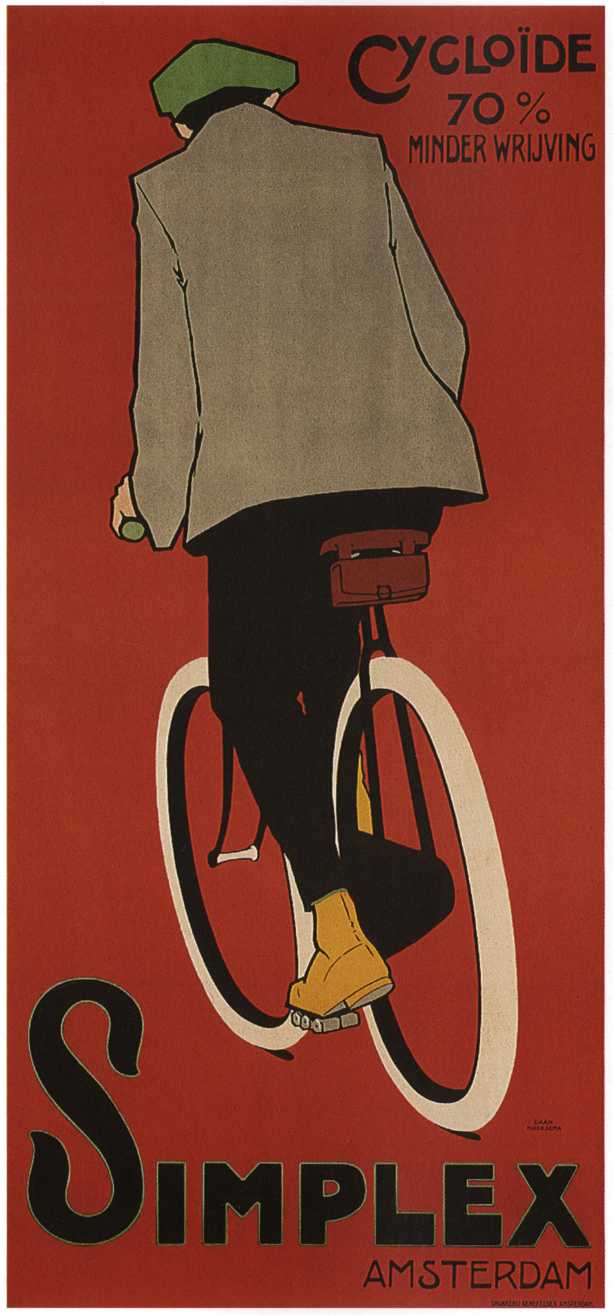 Poster for Simplex